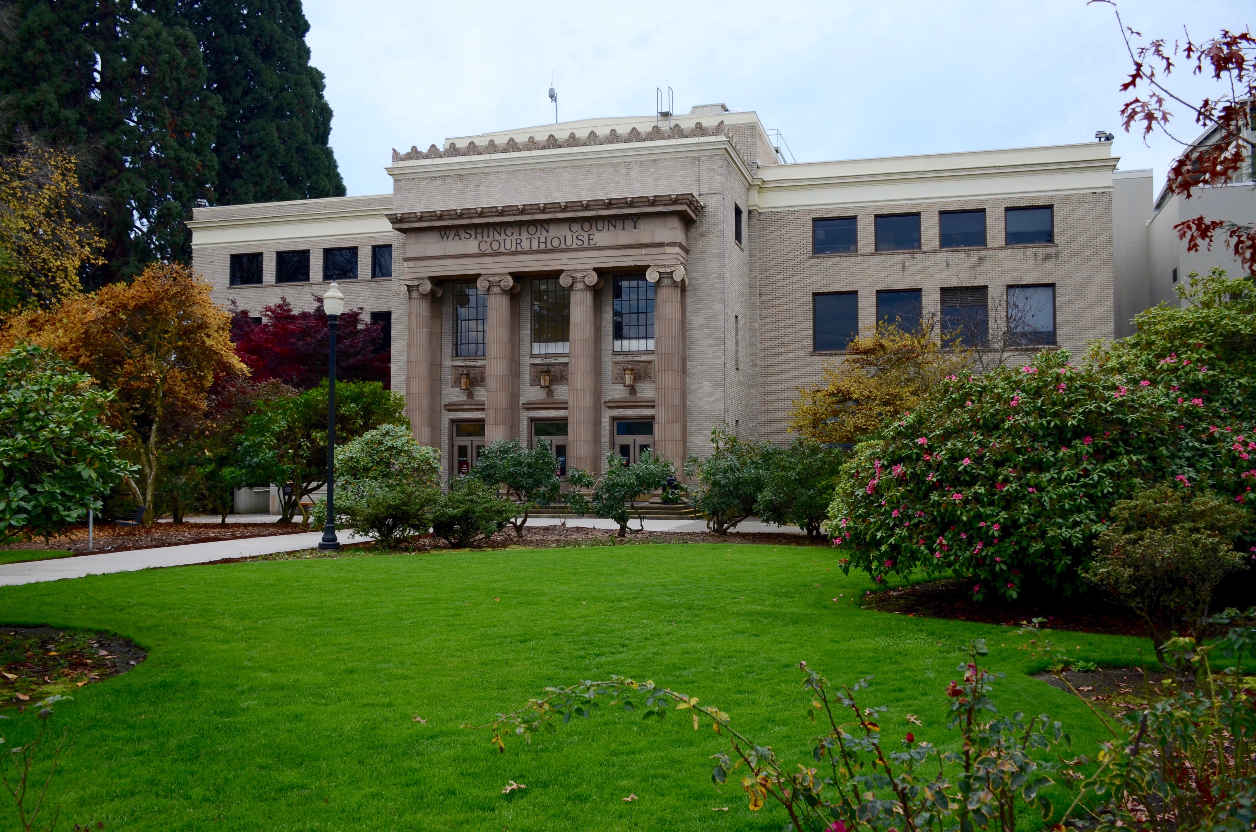 The Washington County Courthouse, in Hillsboro, Oregon, built in 1928–30.